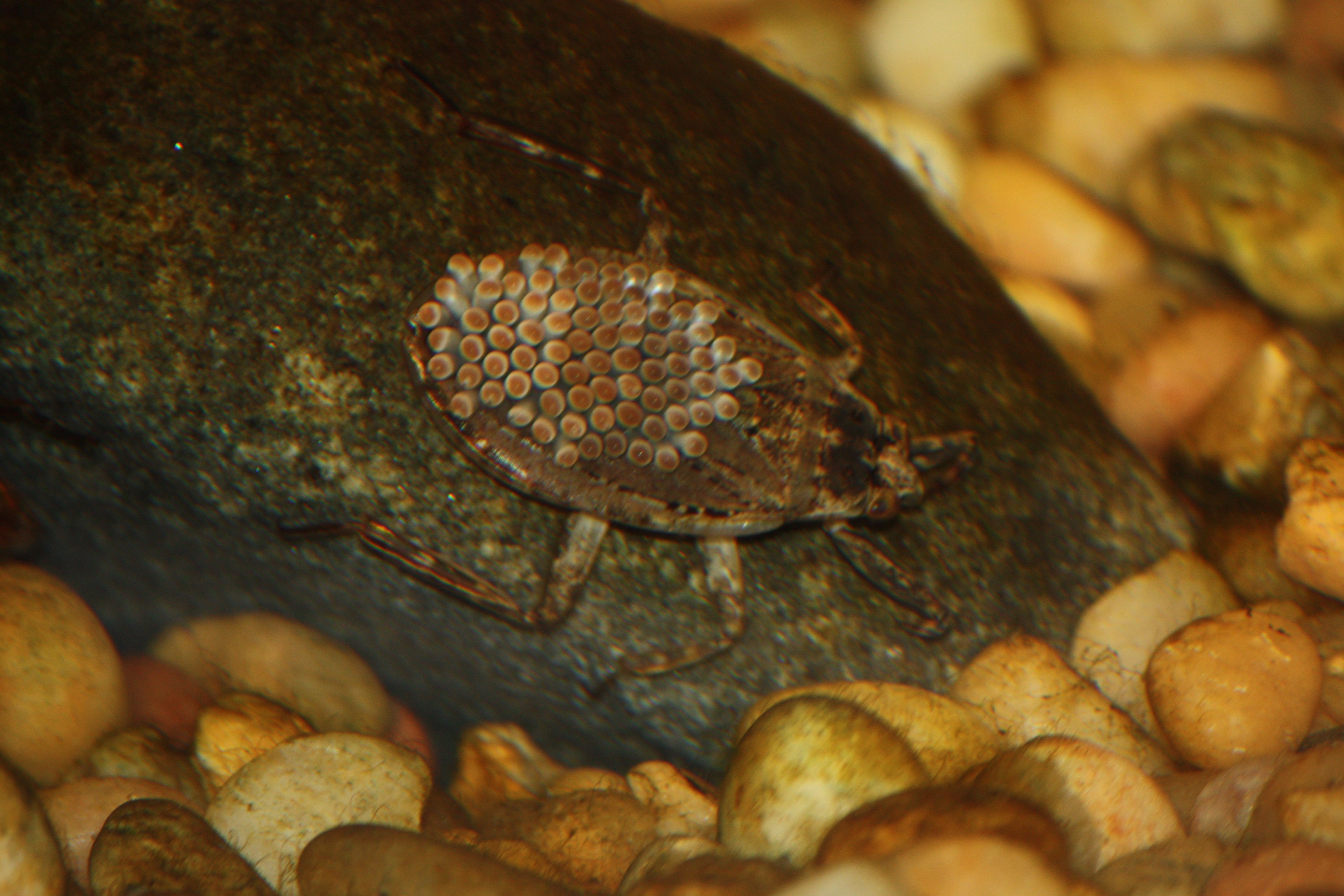 Giant Water Bug Abedus herberti at Cincinnati Zoo